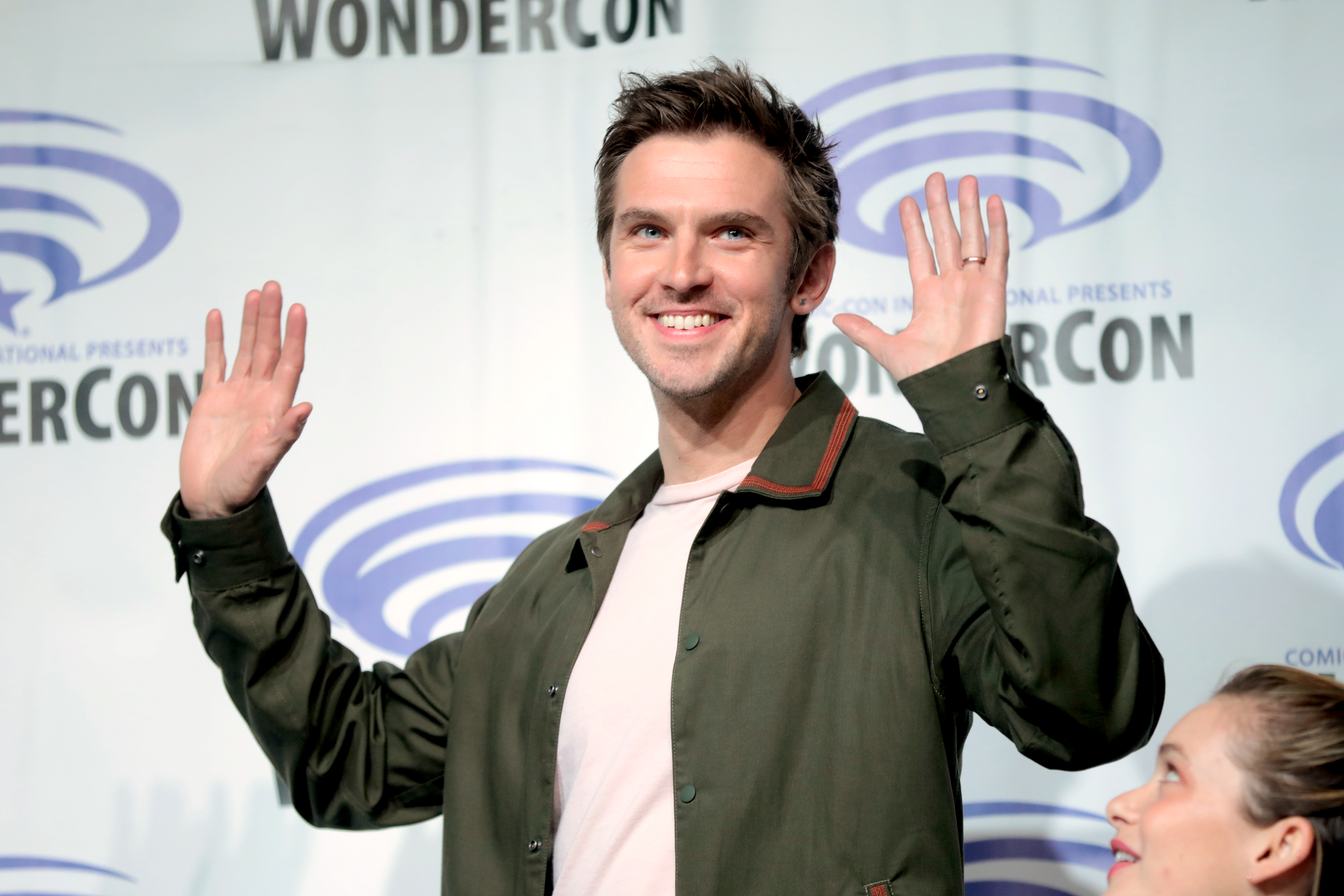 Dan Stevens speaking at the 2019 WonderCon, for "Legion", at the Anaheim Convention Center in Anaheim, California.